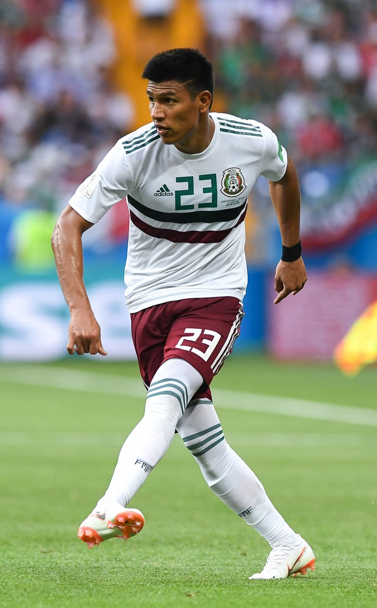 Jesús Gallardo